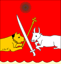 Kingdom of Kartli coat of arms